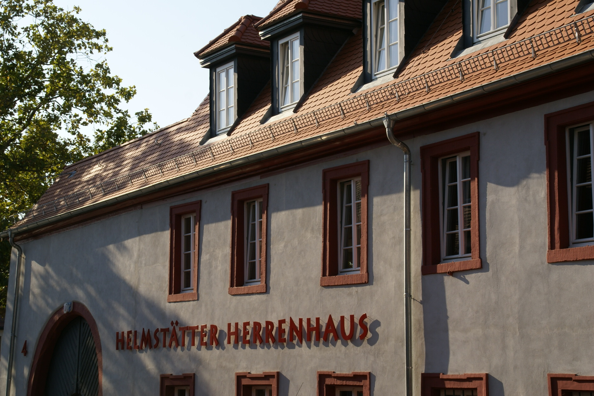 Restaurant Helmstätter Herrenhaus at Dossenheimer Landstrasse in Heidelberg-Handschuhsheim, Germany